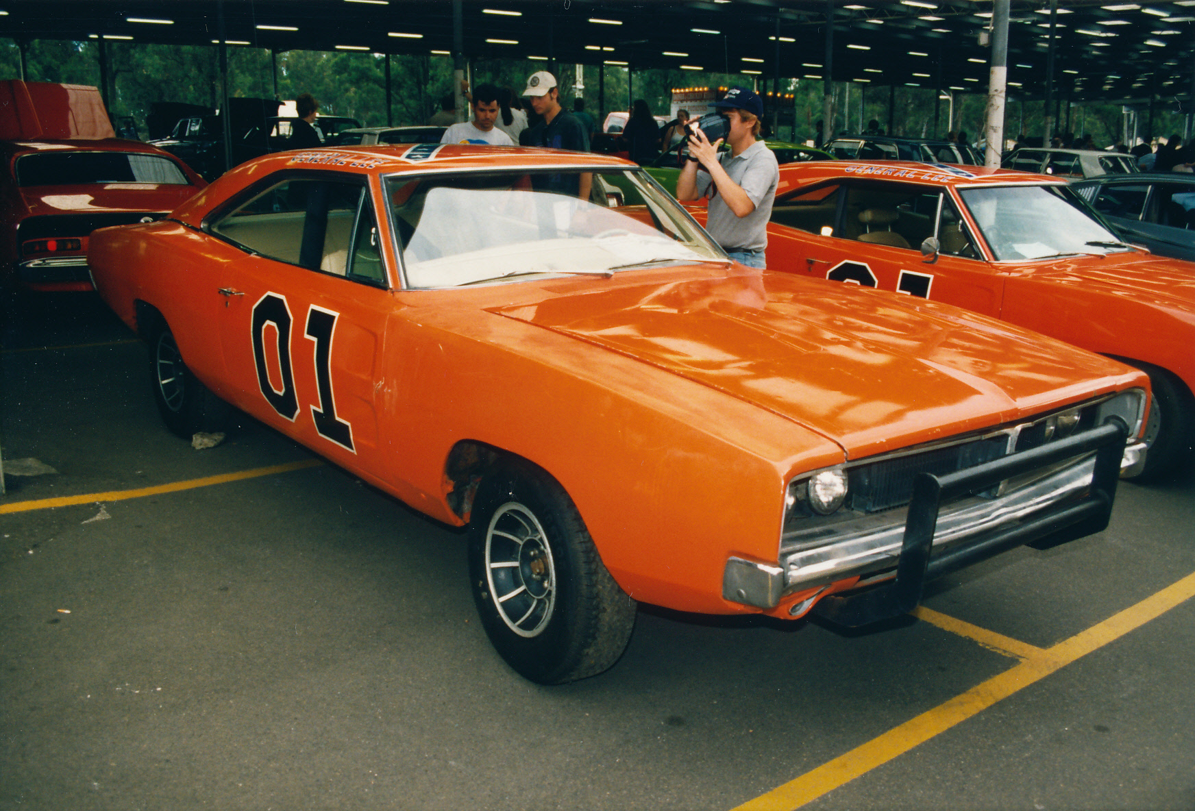 This image is a scan of a 35 mm print taken at the All Chrysler Day at Fairfield Showground in 1998